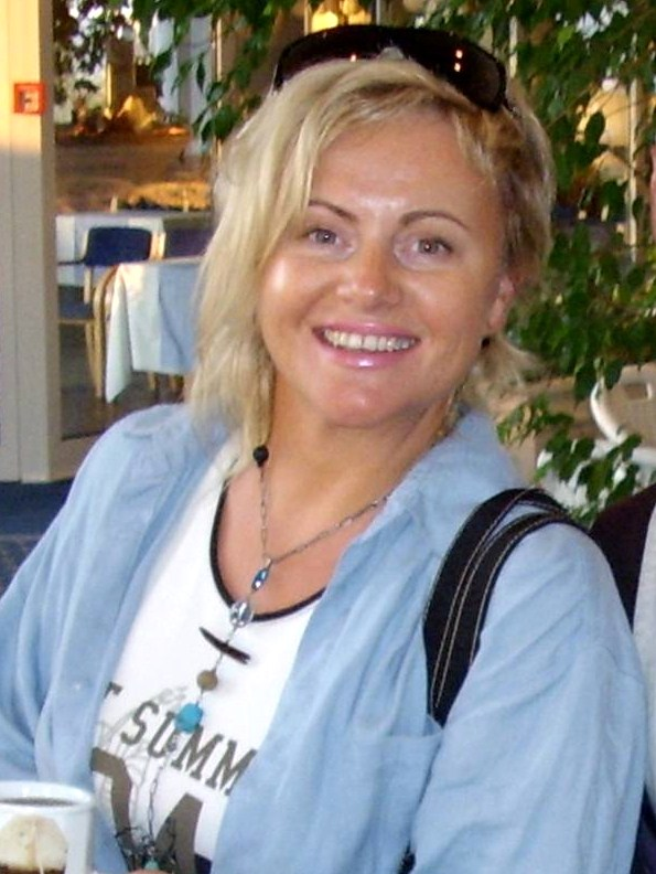 Joanna Kurowska - a popular actress from Poland.